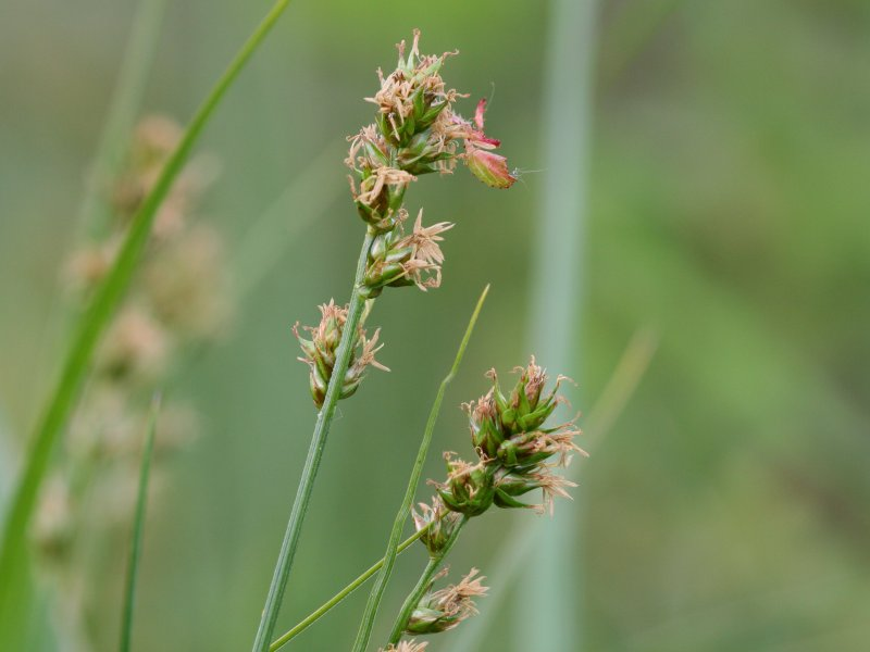 Sparrige Segge (Carex muricata s. str.)